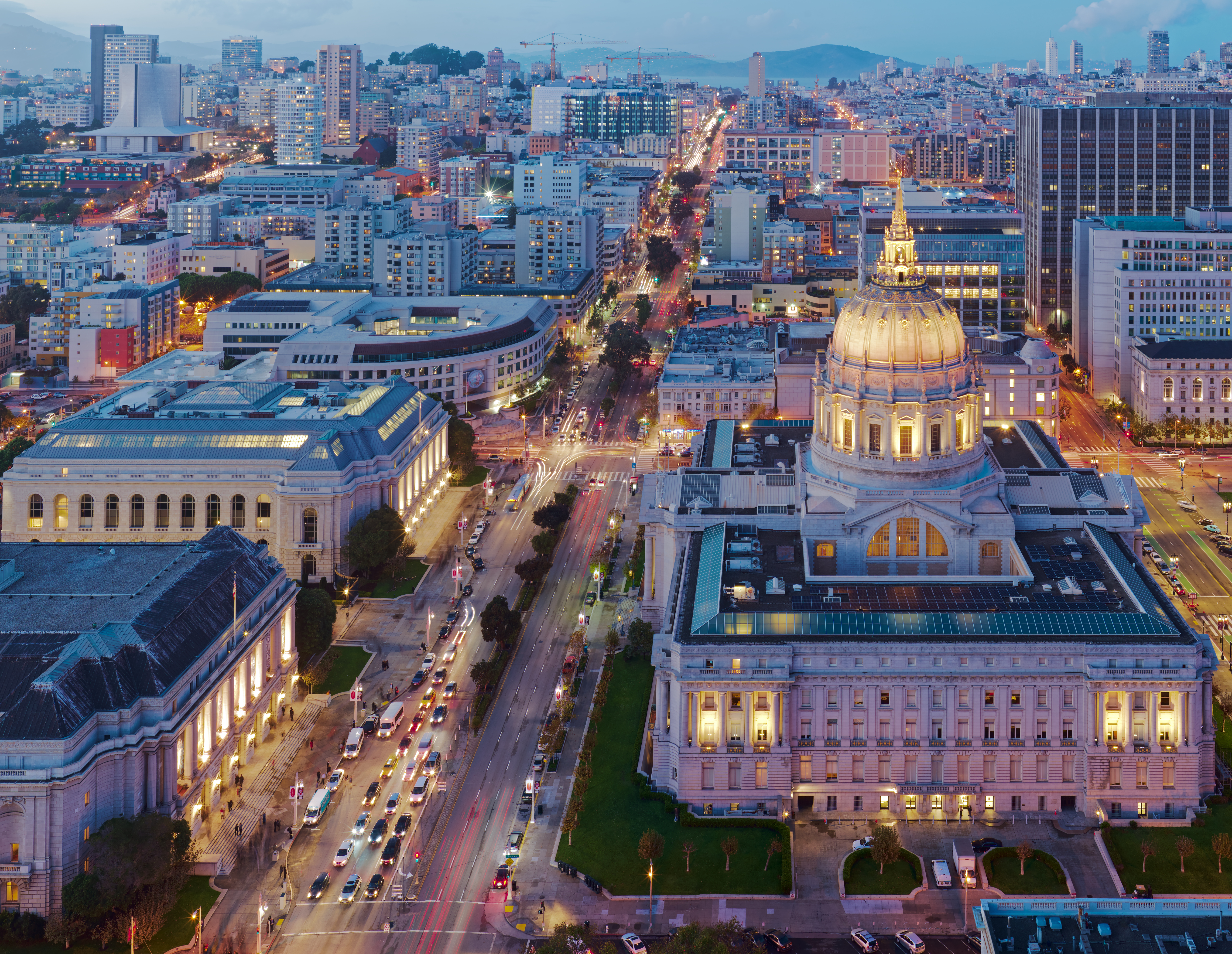 San Francisco City Hall as seen from 100 Van Ness Avenue at dusk.